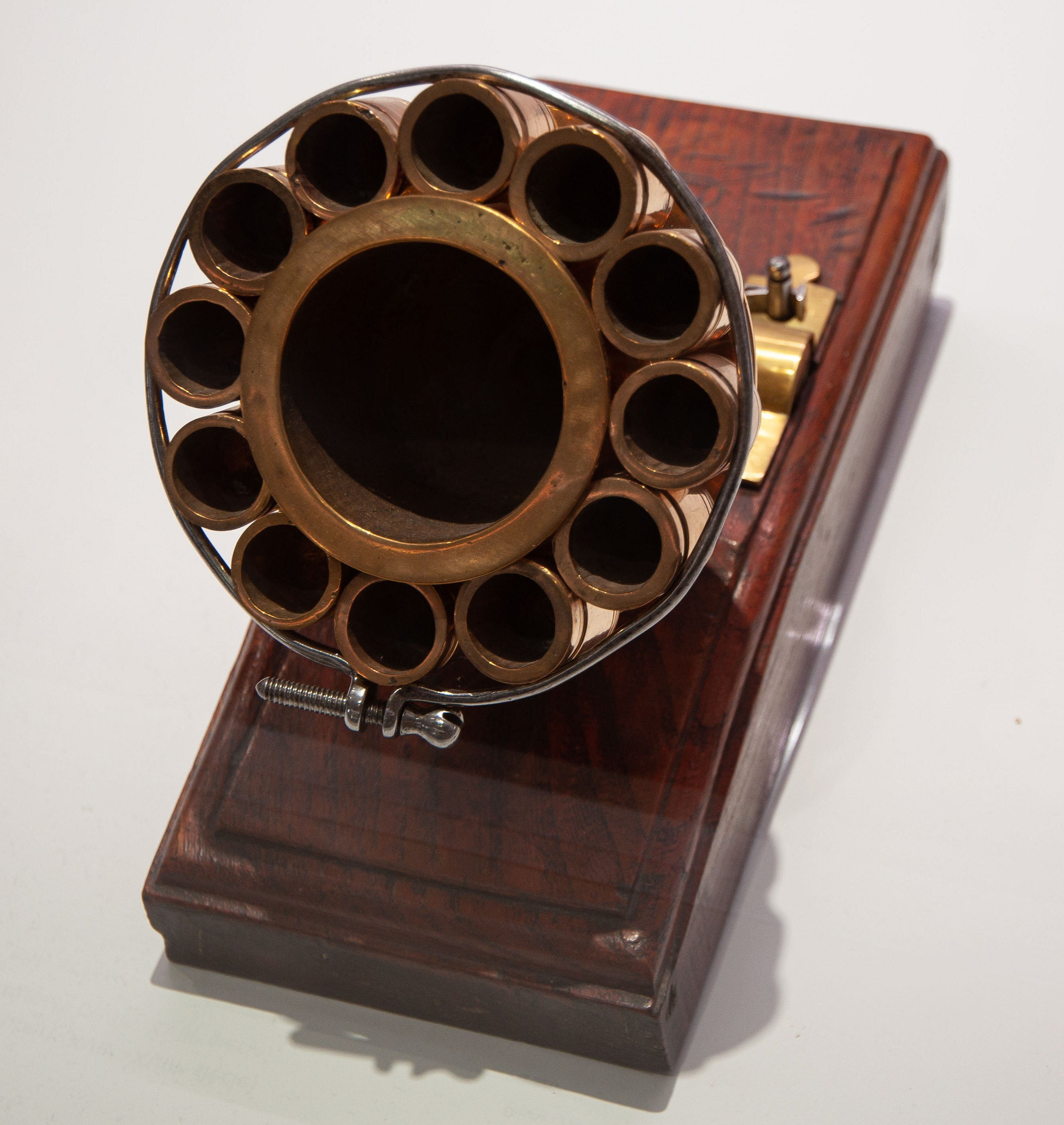 Mortar on display at the Musée de l' Armée in Paris.